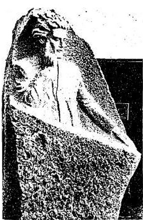 Ber Borochov, sculpture by Mordechai Kafri, Mishmar Hanegev.